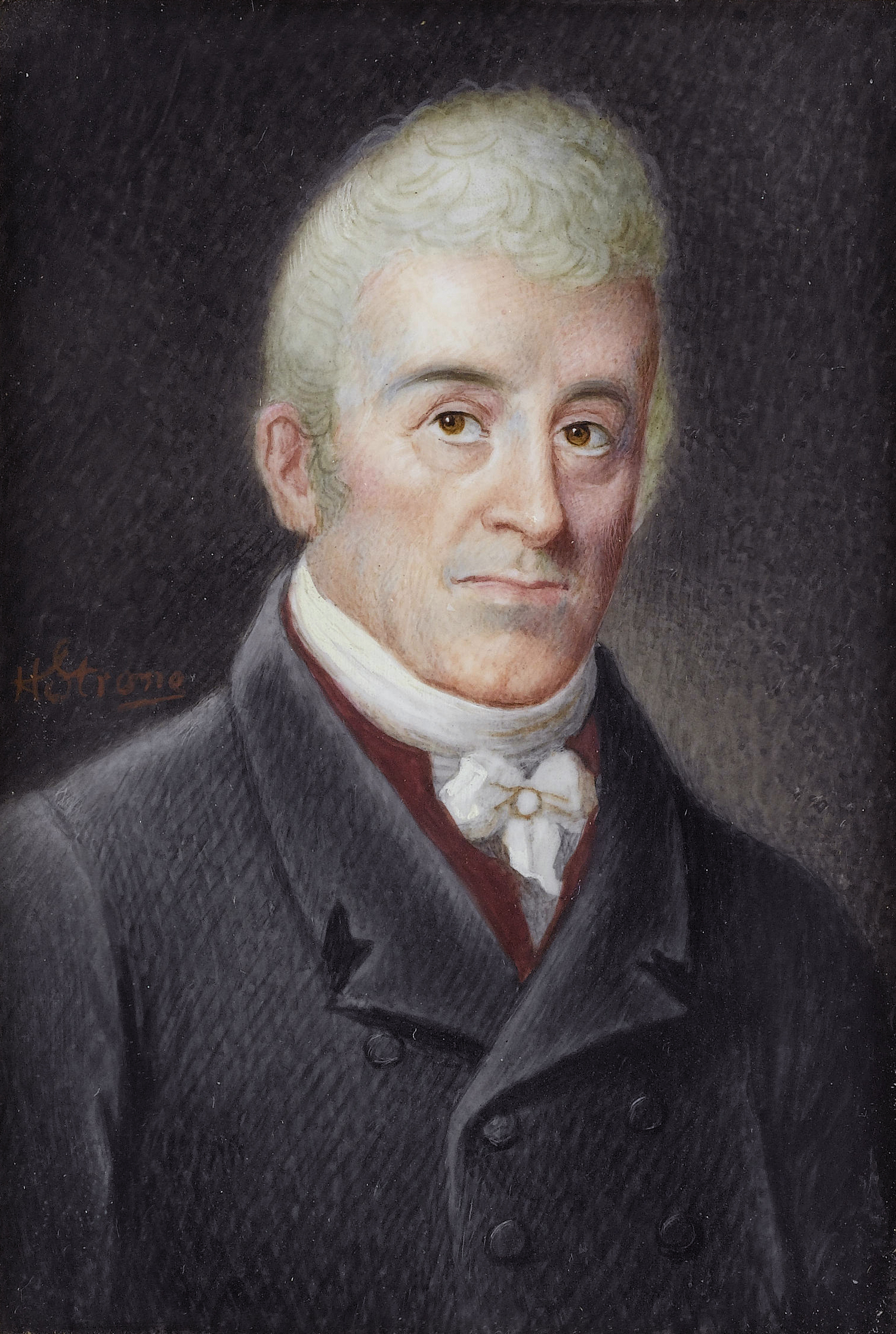 Stephen Van Rensselaer III (1764–1839), Lieutenant Governor of New York painted on ivory 7.8 x 5.2 cm signed c.l.: H Strong inscribed verso: 213/ Stephen Van Rensselaer / The Patroon of Albany / miniature / painted on ivory / by H. Strong / 1830 / Born in N.Y. City 1764 / Lieut Gov of N.Y. 1795 / Prest. Erie Canal / Commission / Founder of Rensselaer / School in 1824.